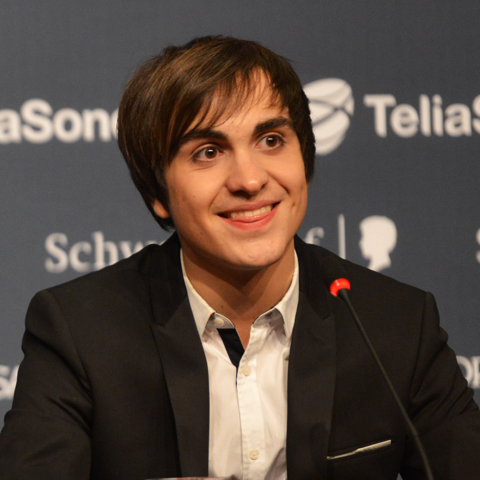 Roberto Bellarosa at a press conference during the Eurovision Song Contest 2013 in Malmö. (Help translate this text)